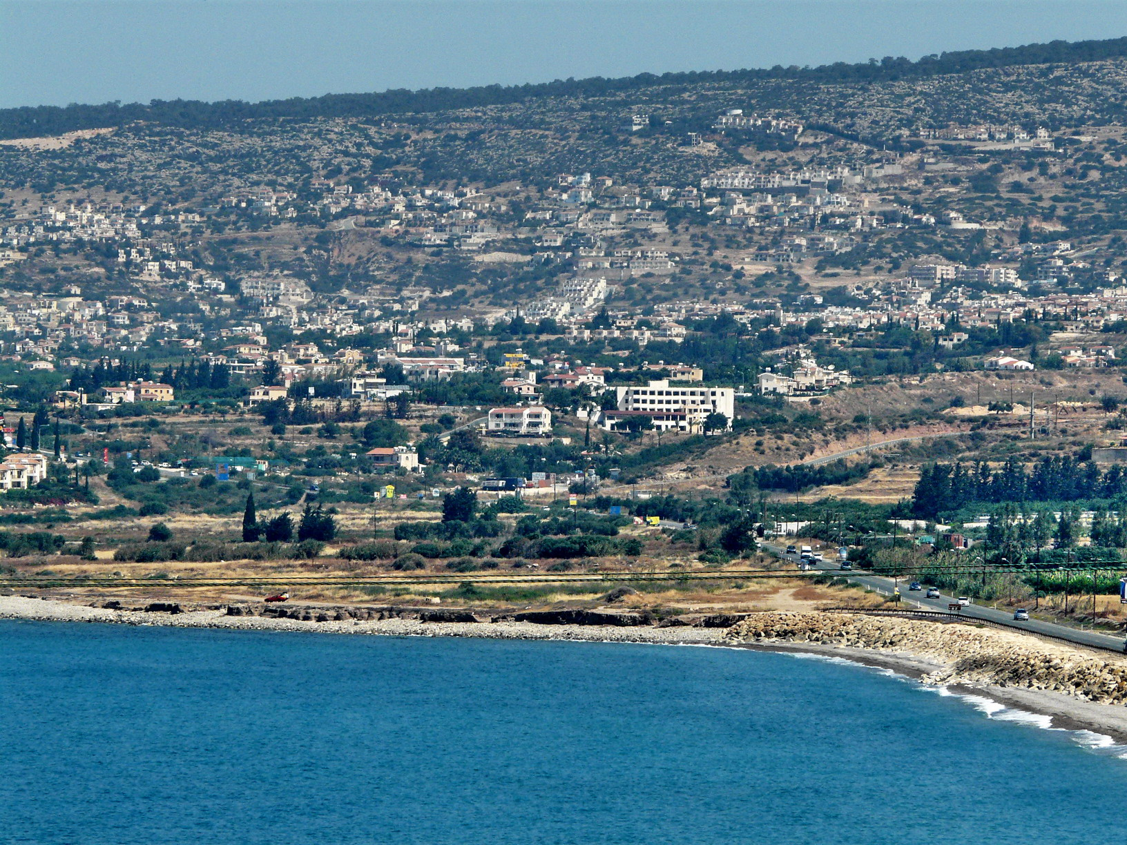 Peyia seen from Kissonerga beach